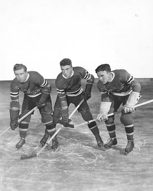 Photo of New York Rangers players (from left) Mac Colville, Neil Colville and Alex Shibicky in 1938